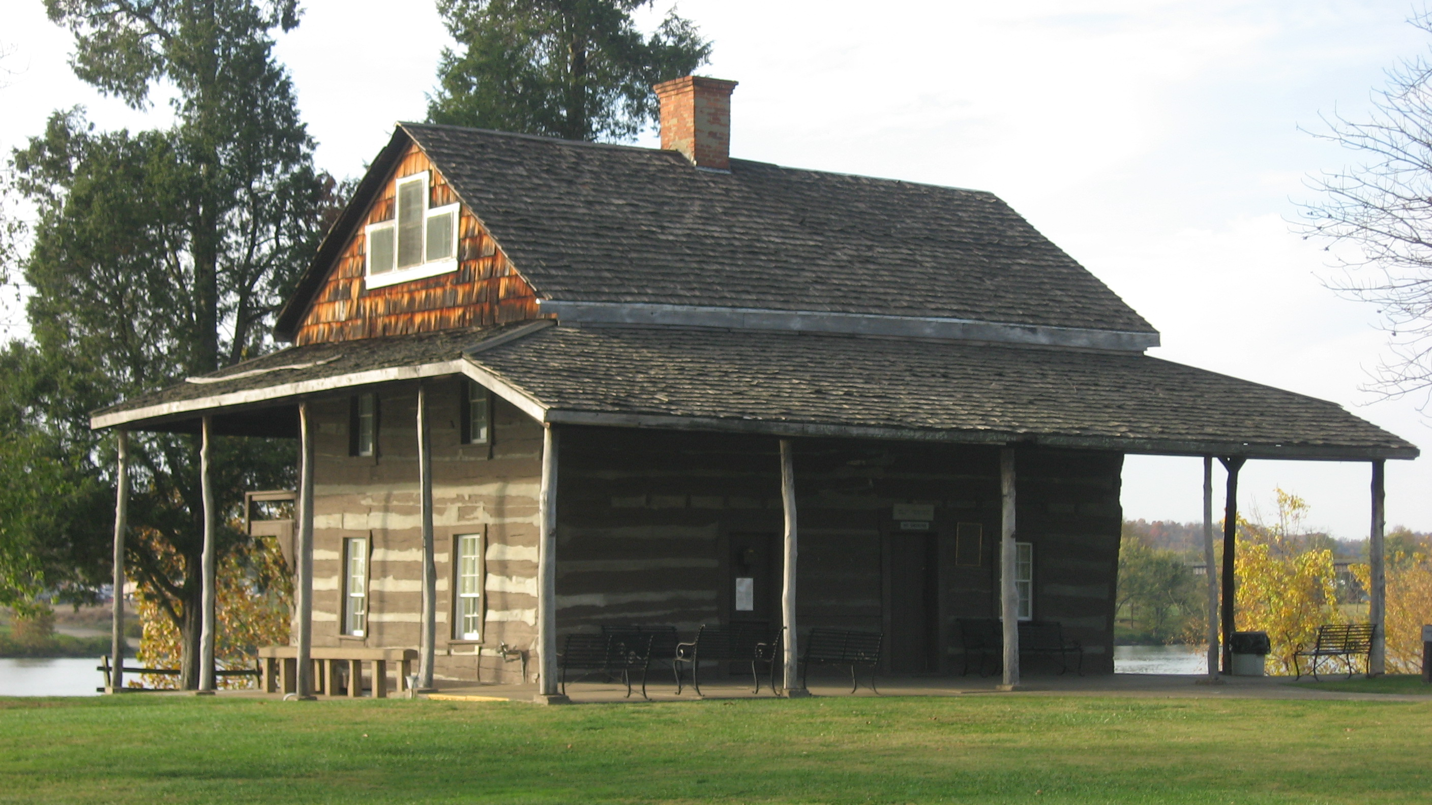 Eastern side of the Old Mansion House, a museum and former tavern at Tu-Endie-Wei State Park in Point Pleasant, West Virginia, United States. Built in 1797, it is part of the Point Pleasant Historic District, a historic district that is listed on the National Register of Historic Places.